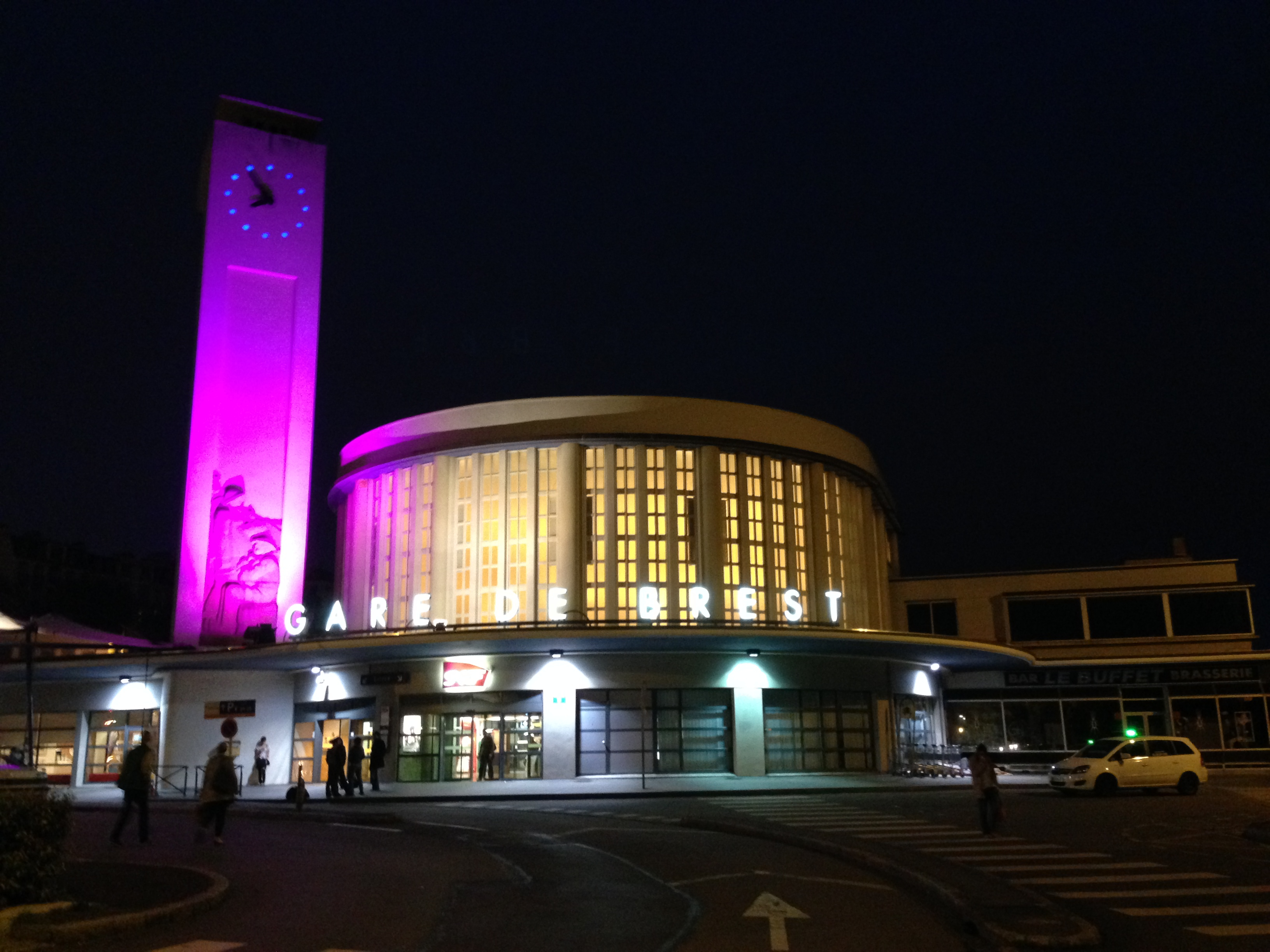 Train Station Brest France - 2